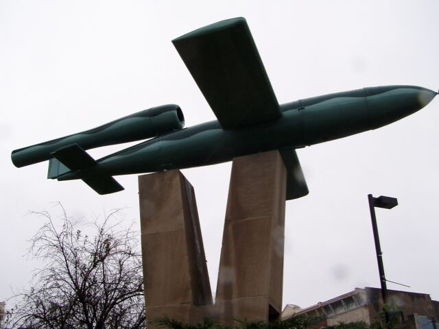 WWII Memorial with a German V-1 mounted